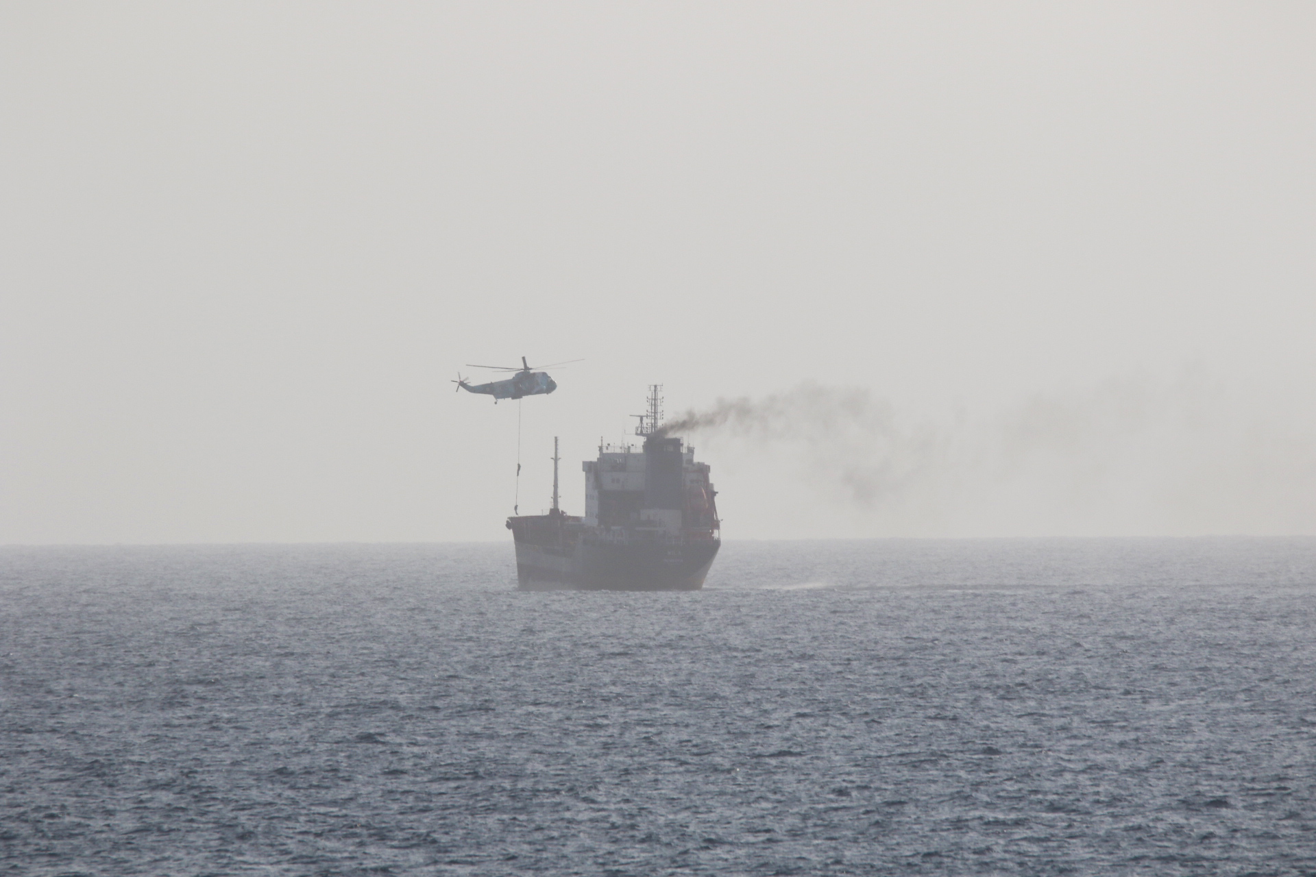 200812-N-N0146-005 ARABIAN GULF (August 12, 2020) – Motor Tanker (M/T) Wila, a merchant vessel in international waters en-route to the UAE port of Khor Fakkan, in the Gulf of Oman, was boarded by armed Iranian personnel who fast roped aboard the ship from an Iranian Sea King helicopter as it hovered above. Coalition Task Force Sentinel, the operational arm of the International Maritime Security Construct, is a multinational maritime effort which promotes maritime stability and safe passage, enhancing freedom of navigation throughout key waterways in the Arabian Gulf, Strait of Hormuz, Gulf of Oman, Gulf of Aden, Bab el-Mandeb Strait and Southern Red Sea. (Courtesy U.S. Navy photo)